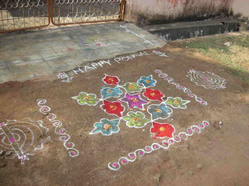 Sankranti/pongal decoration on the ground outside a house in Andhra Pradesh, saying "Happy Pongal".